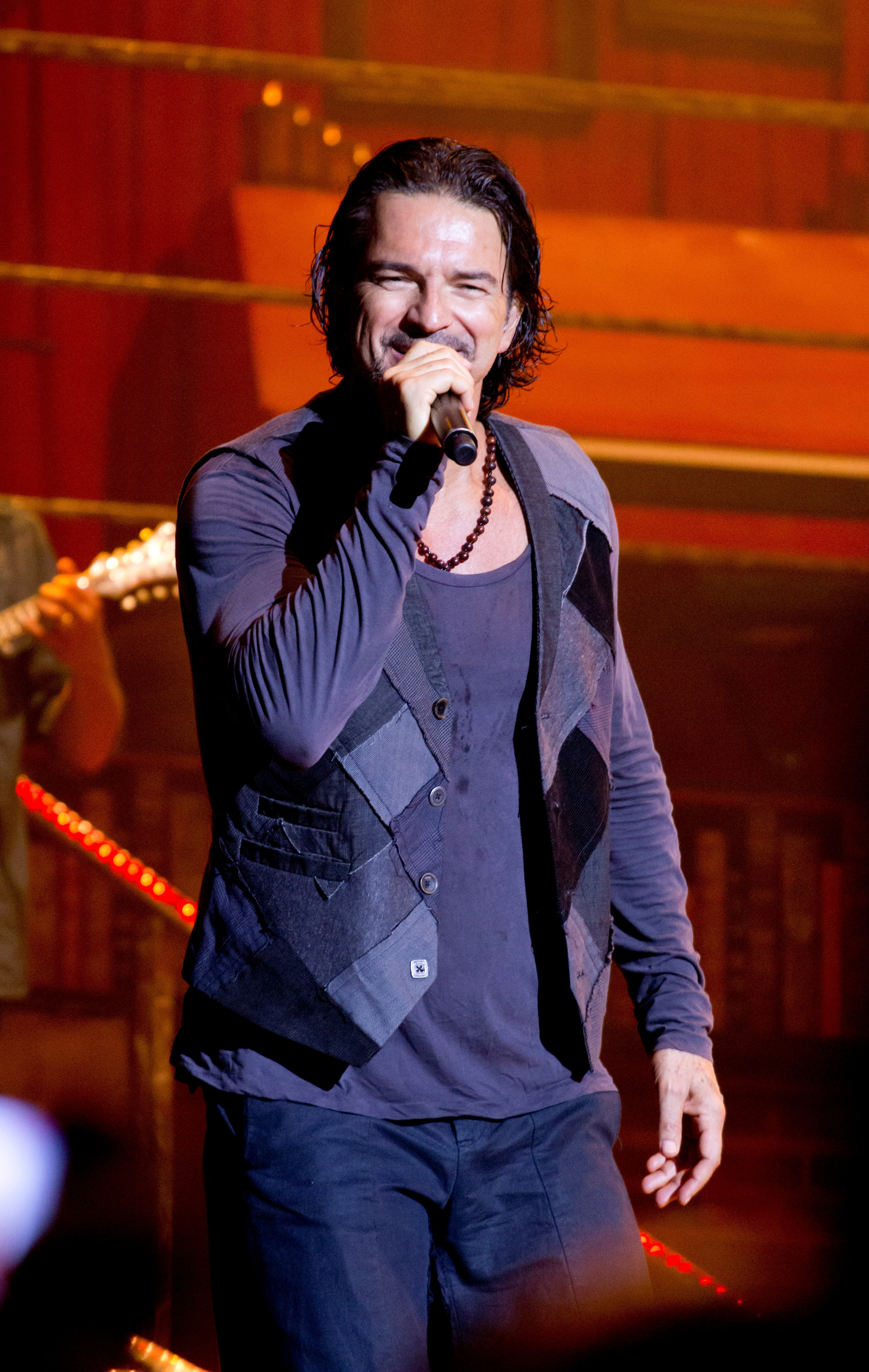 Ricardo Arjona singing during his concert in Managua, Nicaragua. The concert was held on December 8, 2012, as part of his Metamorfosis World Tour.